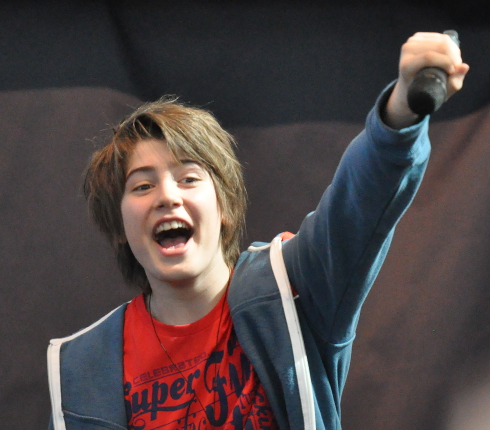 Finnish singer Robin Packalen performing in Jumbo shopping center.